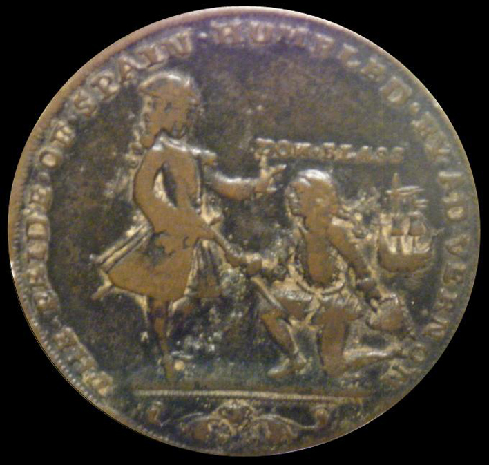 English medal commemorating the "taking" of Cartagena de Indias by admiral Edward Vernon during the War of Jenkins' Ear. The medal depicts the Spanish admiral Blas de Lezo (Don Blass) with his two legs, on his knees giving his sword to admiral Vernon. After the crushing defeat suffered by the English fleet in the battle of Cartagena, the medals were retired, but some were saved. The medal says "The pride of Spain humbled by Ad. Vernon". Naval Museum of Madrid.